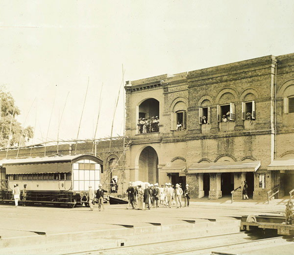 The visit of His Excellency the Earl of Elgin & Kincardine to the East Indian Railway Workshops at Jamalpur. View showing the Viceregal party at the East Indian Railway Workshops, Jamalpur taken by Basil J. Elias, December 1897 from the Elgin Collection: 'Presented to His Excellency the Earl of Elgin & Kincardine...as a Memento of His Excellency's Visit to the East Indian Railway Workshops at Jamalpur November 30th 1897'.